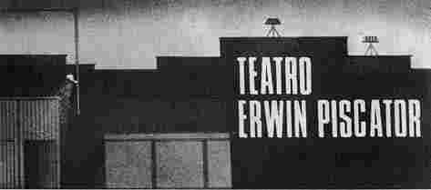 Teatro Erwin Piscator, Catania, Sicily, Italy